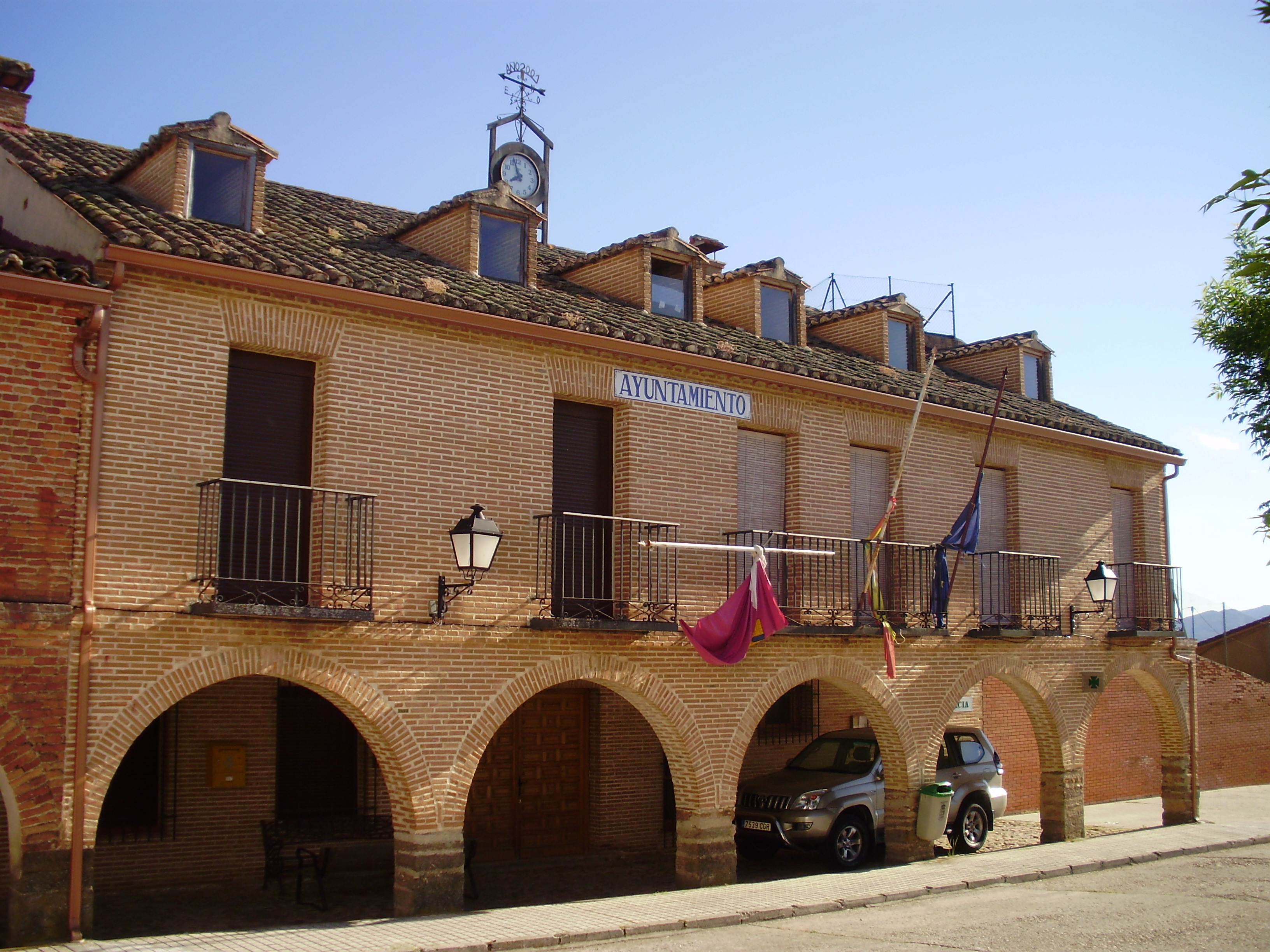 Town Hall of Hiendelaencina, Guadalajara, Castile-La Mancha, Spain.